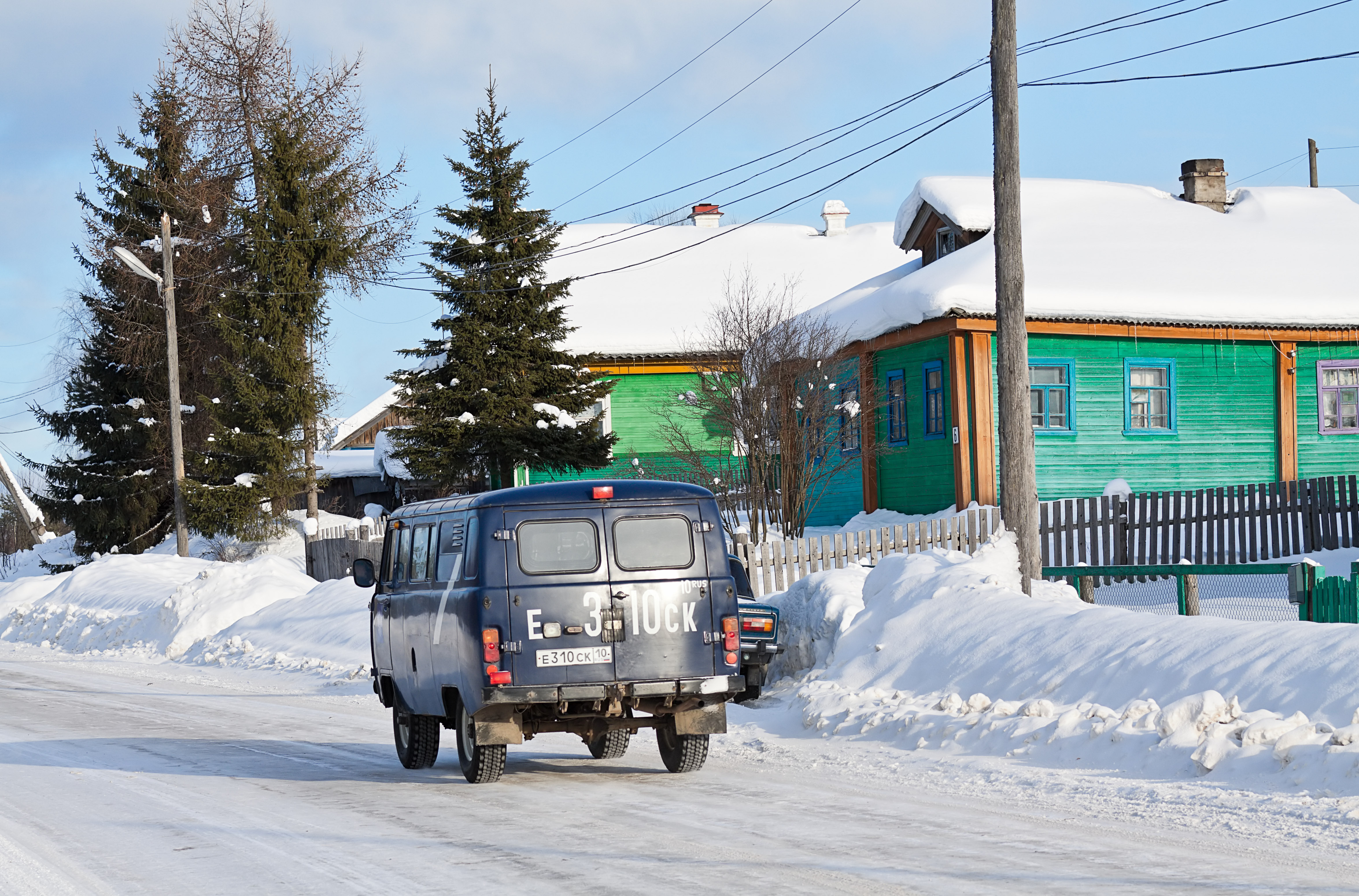 Mail car UAZ-3741 in Pudozh town.